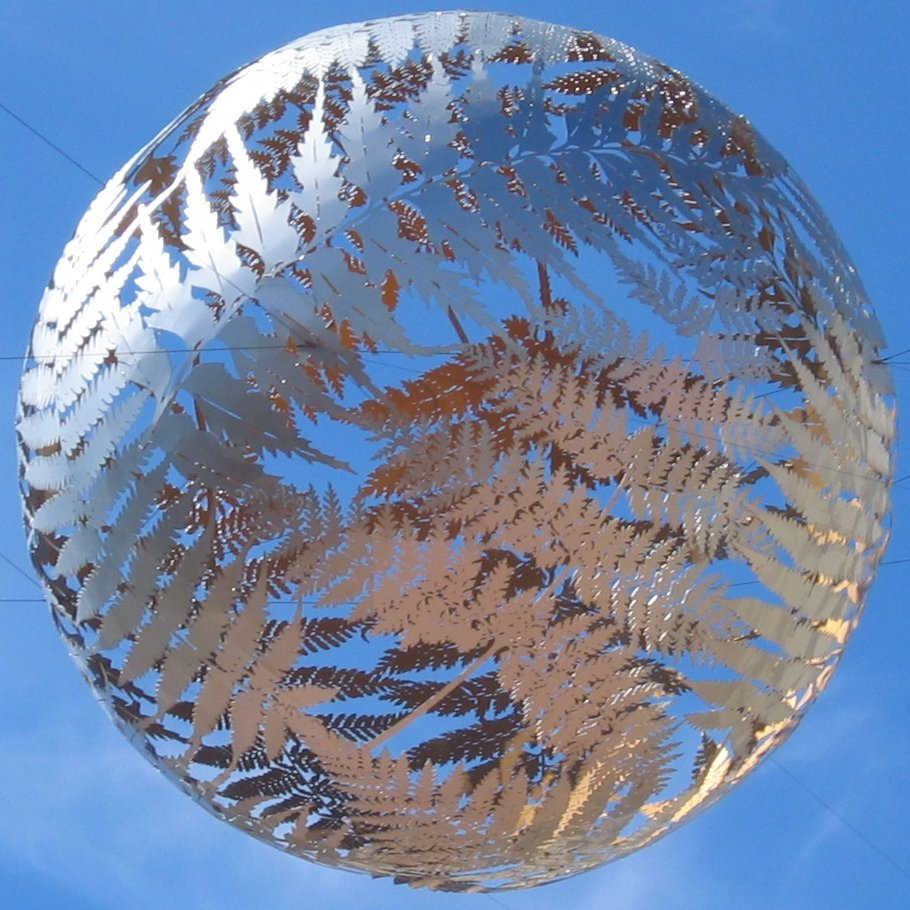 This ball is hanging in mid air in Civic Square, Wellington, New ZealandWellington sculpture